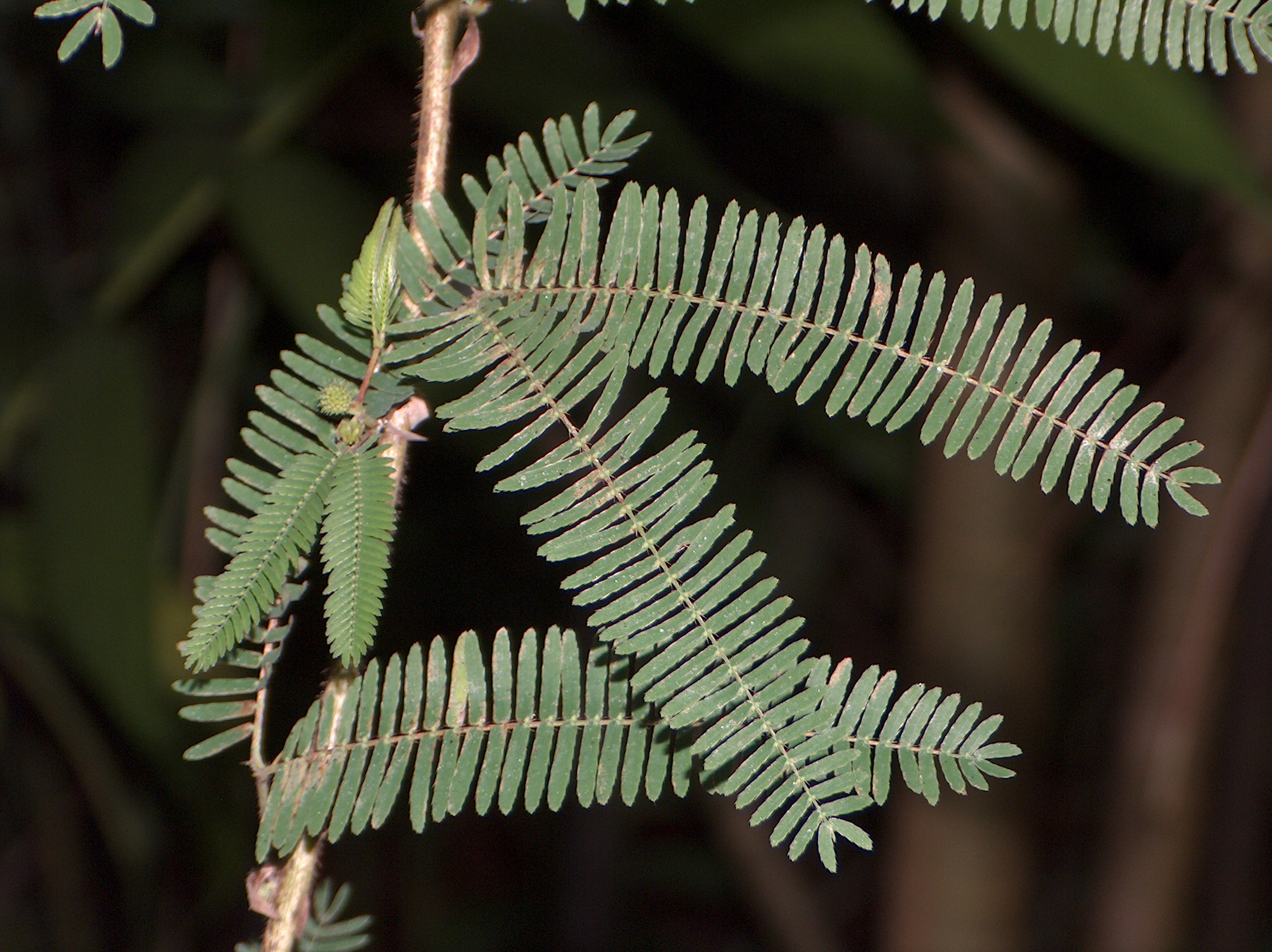 Leaves of Mimosa spegazzini PirottaLatina: Mimosa spegazzini Pirotta folia